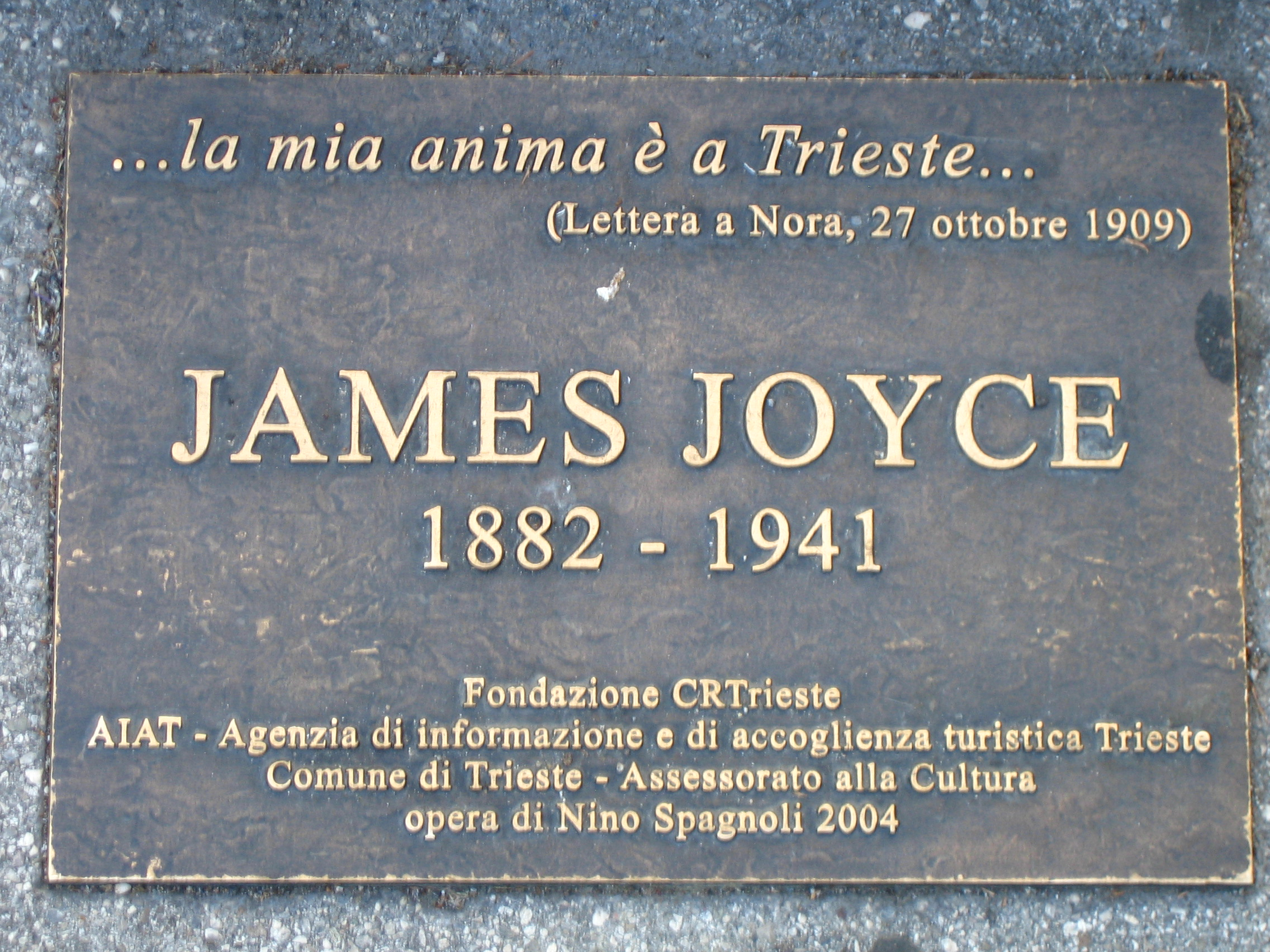 Memorial tablet at the statue of James Joyce in Trieste